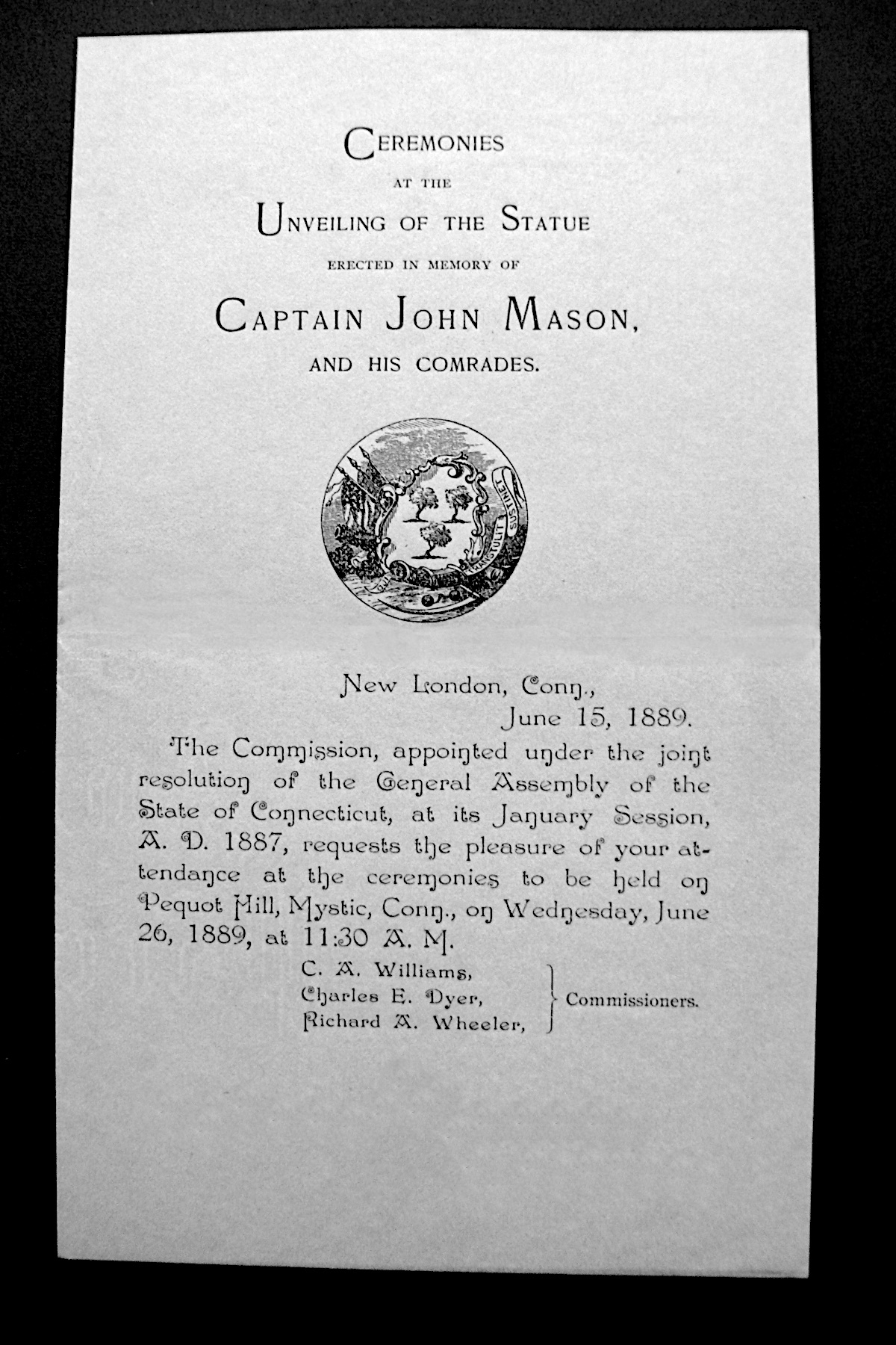 Temporary Plaster Monument